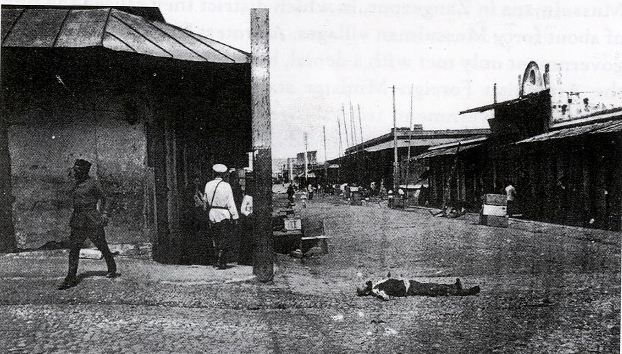 A Tatar (Azerbaijani) of the massacre in Baku during Armenian–Tatar massacres 1905-1907